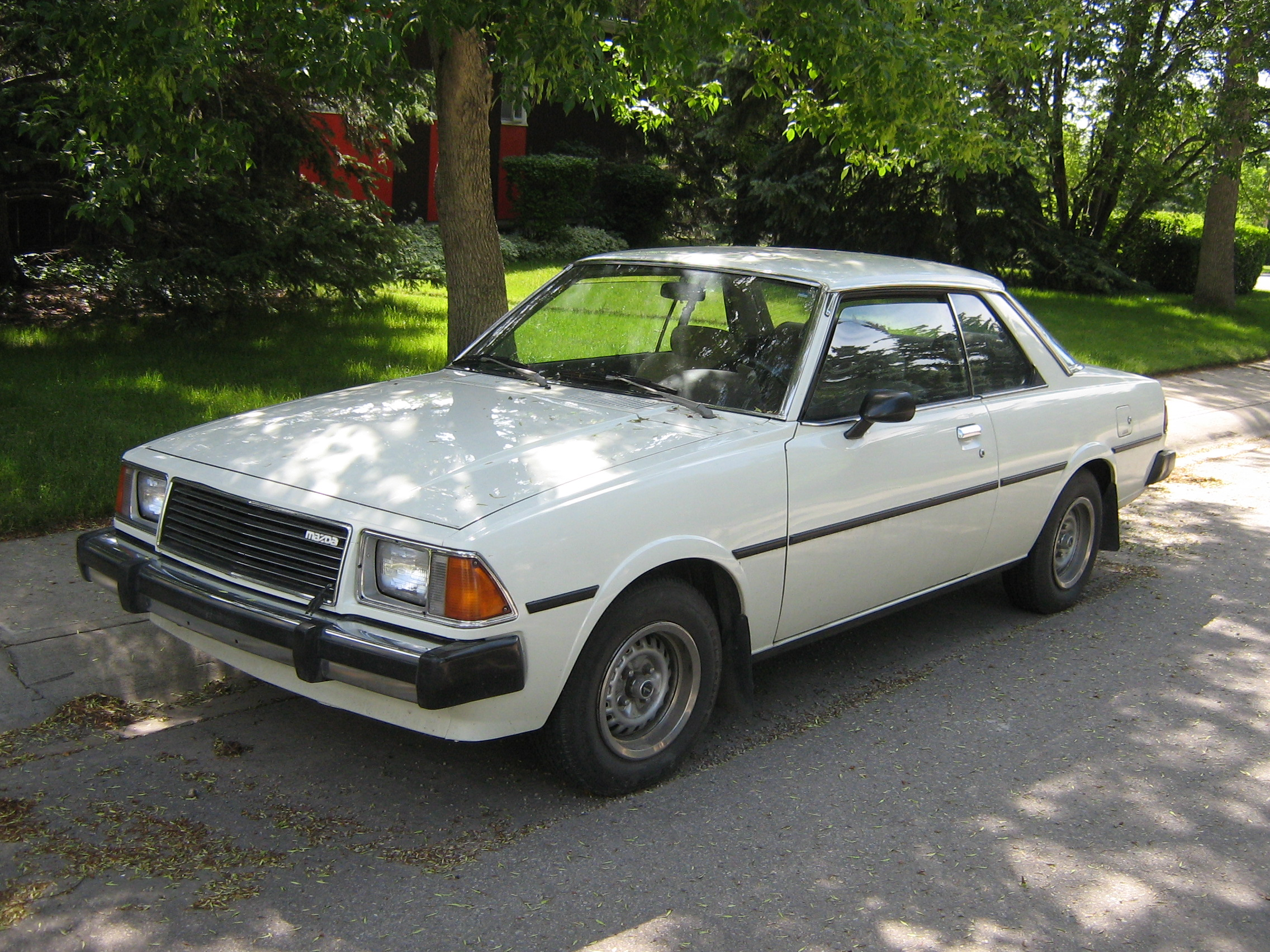 Mazda 626 coupe - last of the line for rear wheel drive 626s.